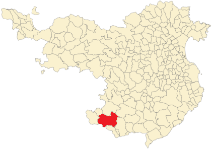 Arbúcies